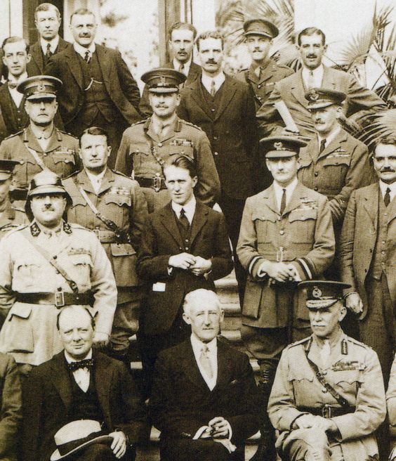 Churchill at the Cairo Conference 1921